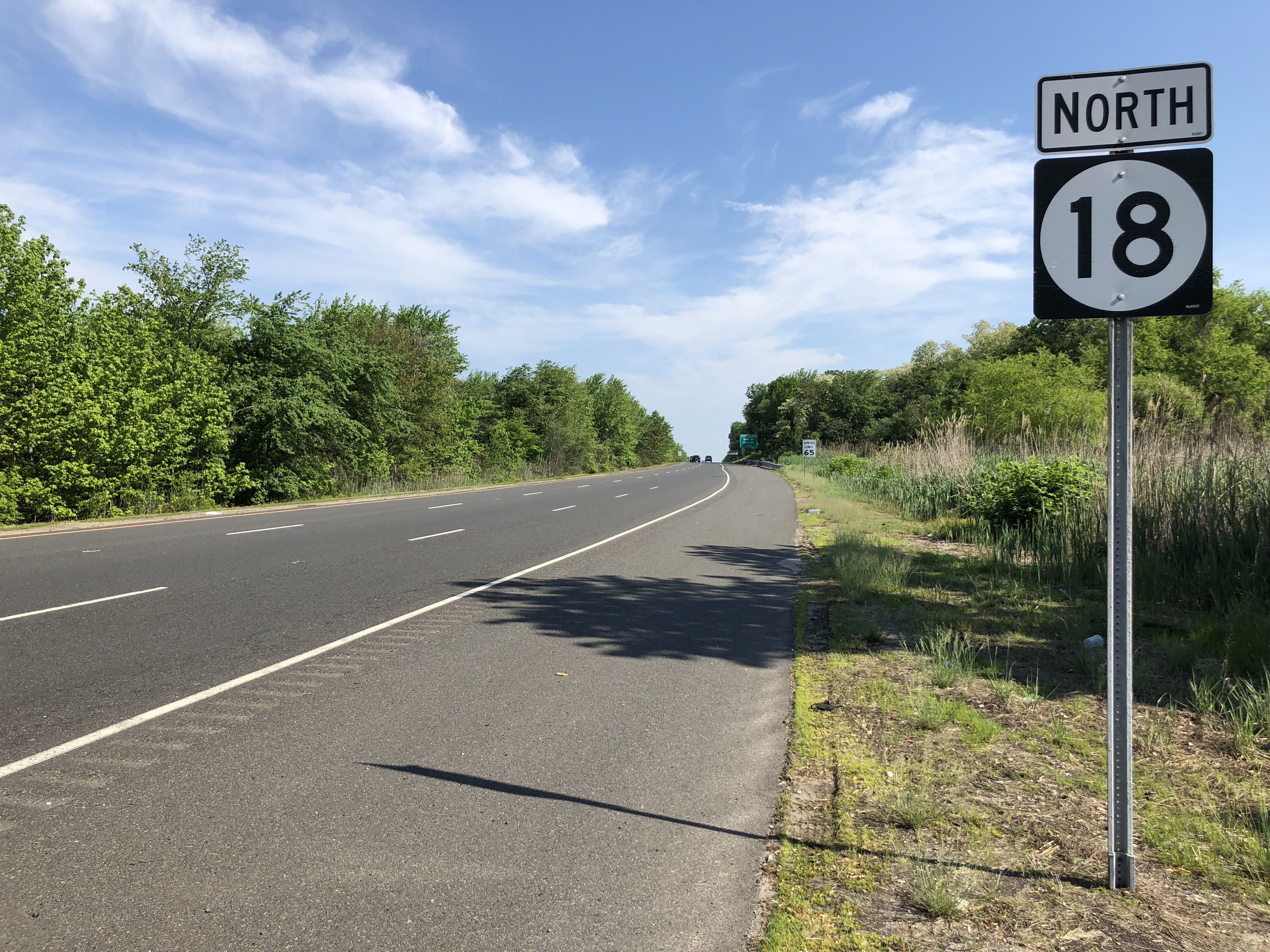 View north along New Jersey State Route 18 just north of Exit 10 in Ocean Township, Monmouth County, New Jersey